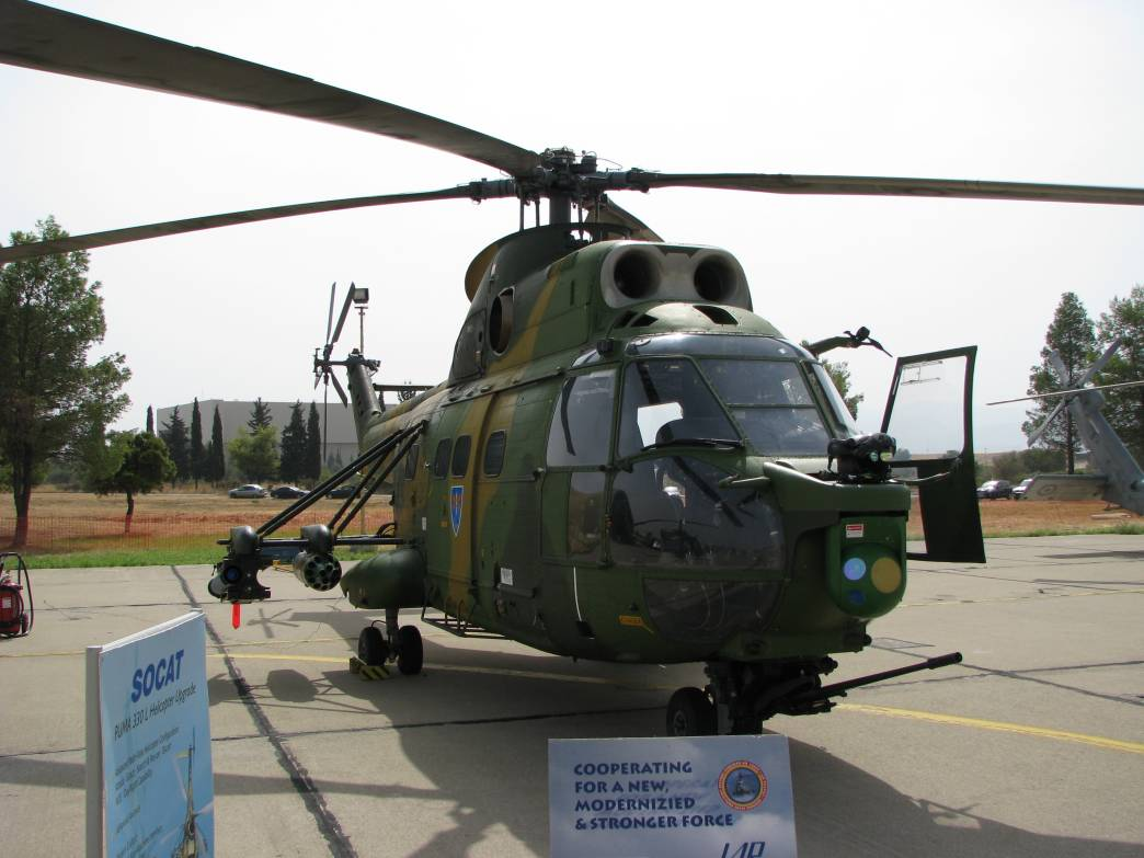 A Romanian IAR-330L SOCAT displayed at the 2008 HAF air show, in Tanagra airbase, Greece